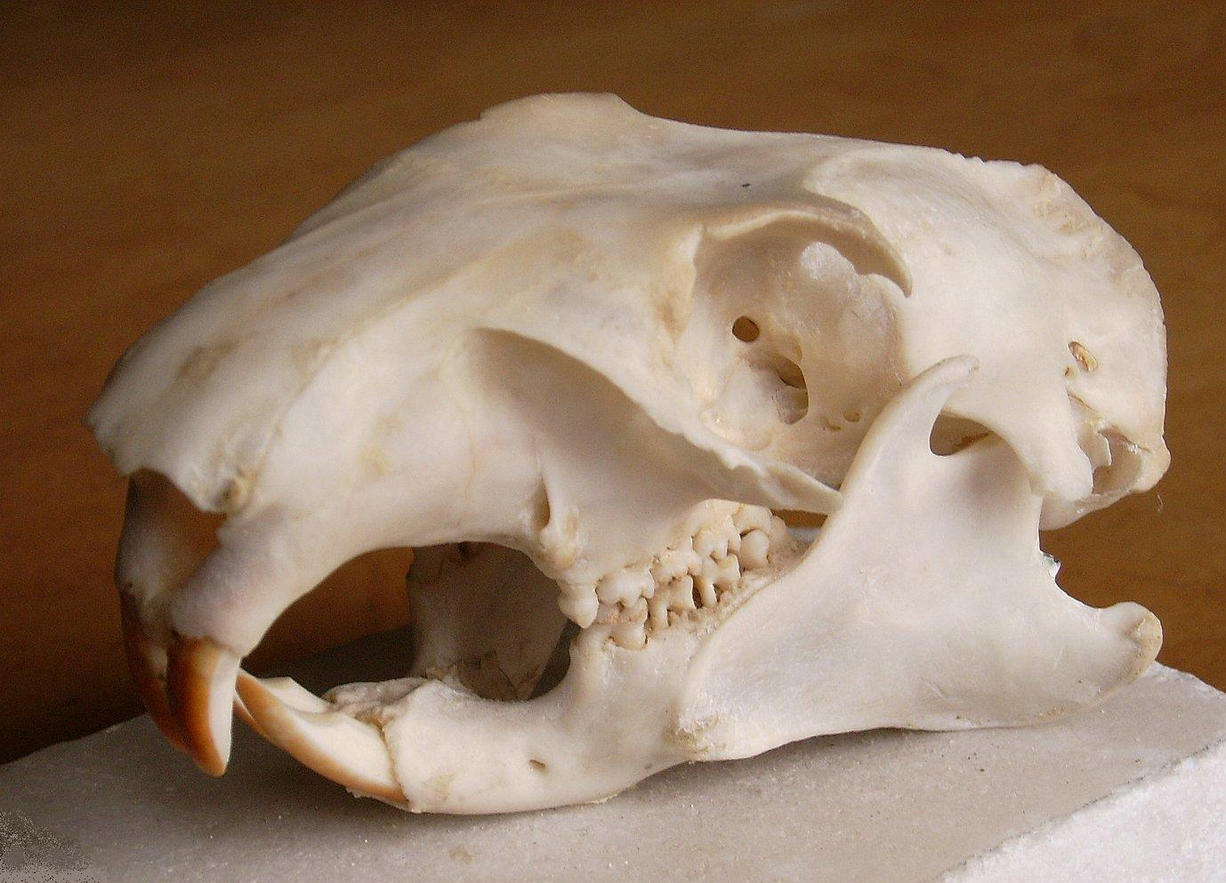 Bonce of a Marmot